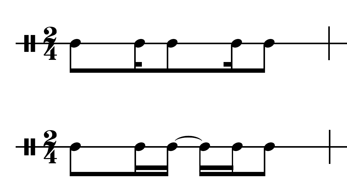 Cinquillo rhythmic cell. Created this file myself, a screen shot from a music editing program.